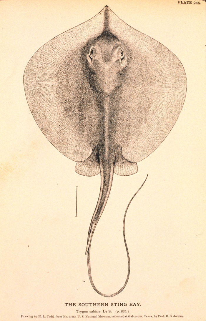 Atlantic stingray (Dasyatis sabina), from NOAA's Historic Fisheries Collection.